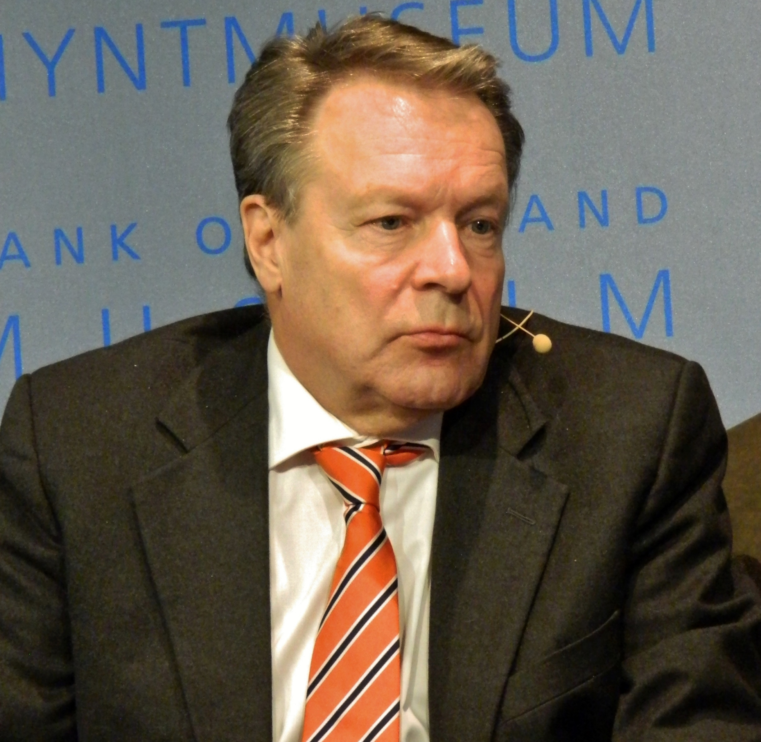 Ilkka Kanerva at Bank of Finland, in history seminar, 2016